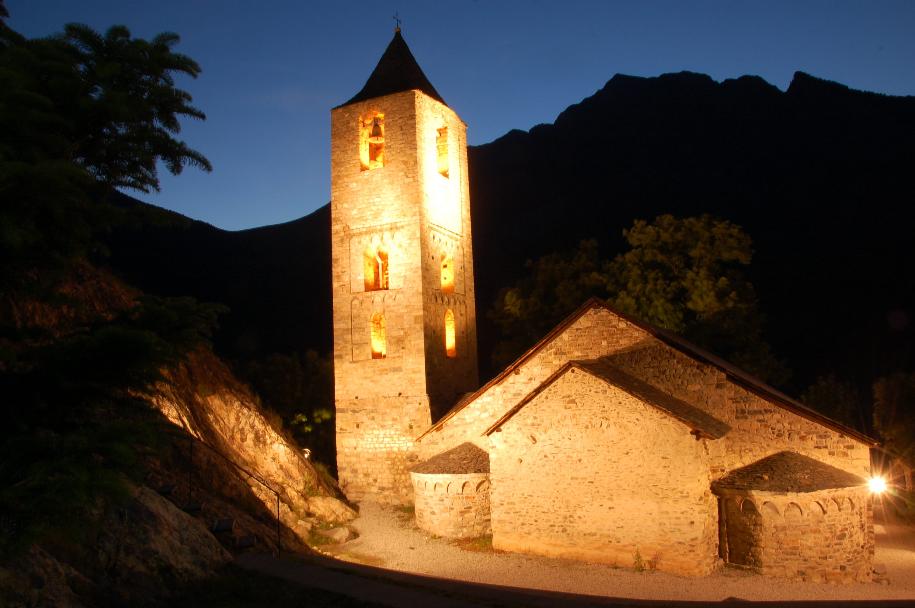 Sant Joan de Boí,Romanesque architecture in Catalonia, 2008